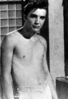 American singer Elvis Presley stripped to his waist after escaping from a fan riot, during the concerts performed in Jacksonville, Florida between May 12-13.